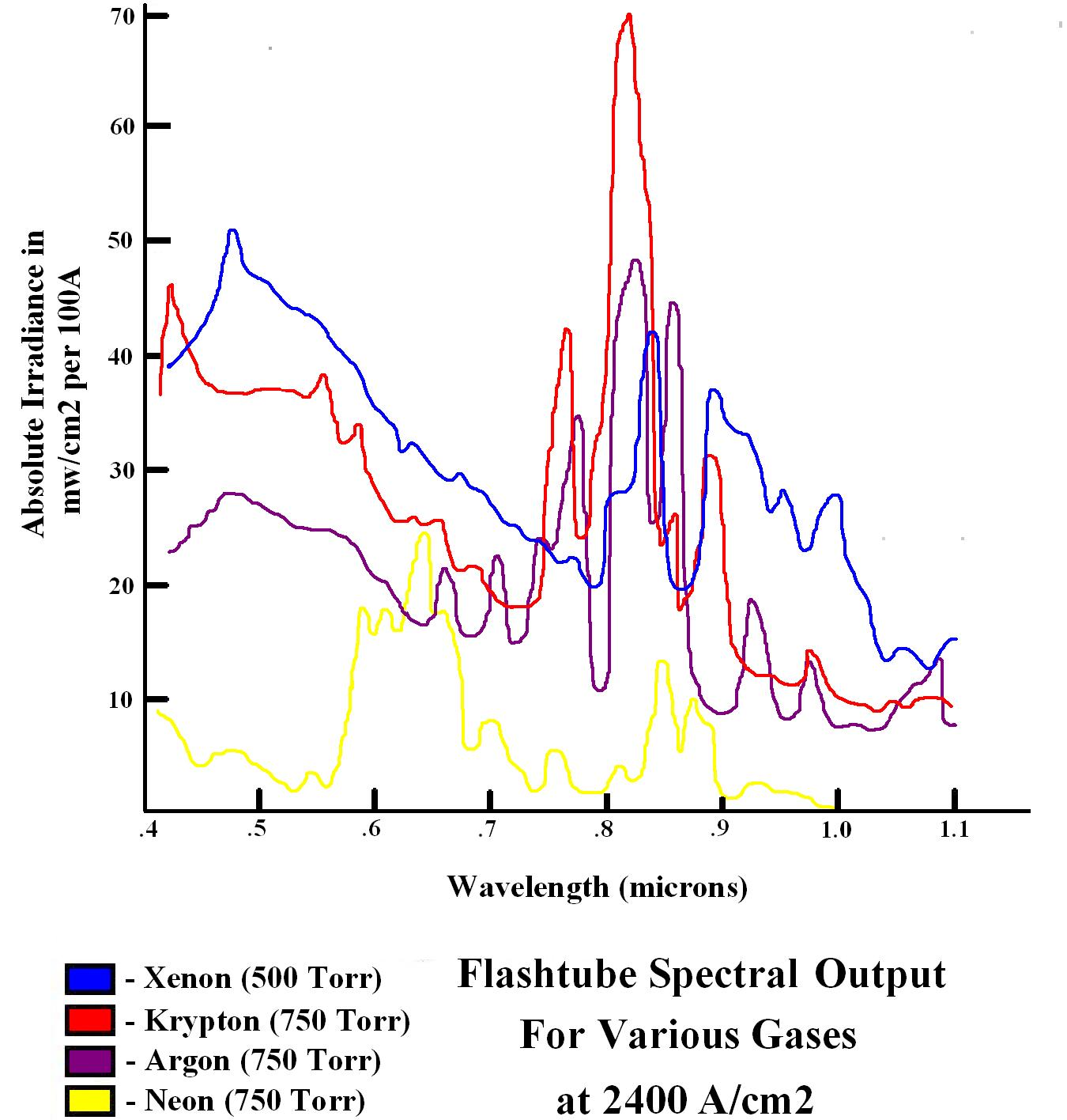 Spectral outputs of various gases when operated in flashtubes with a 150 millimeter arc length and a four millimeter bore, with a current density of 2400 amps per centimeter squared. The input energy was 65 joules with a flash duration of 300 microseconds.[1]